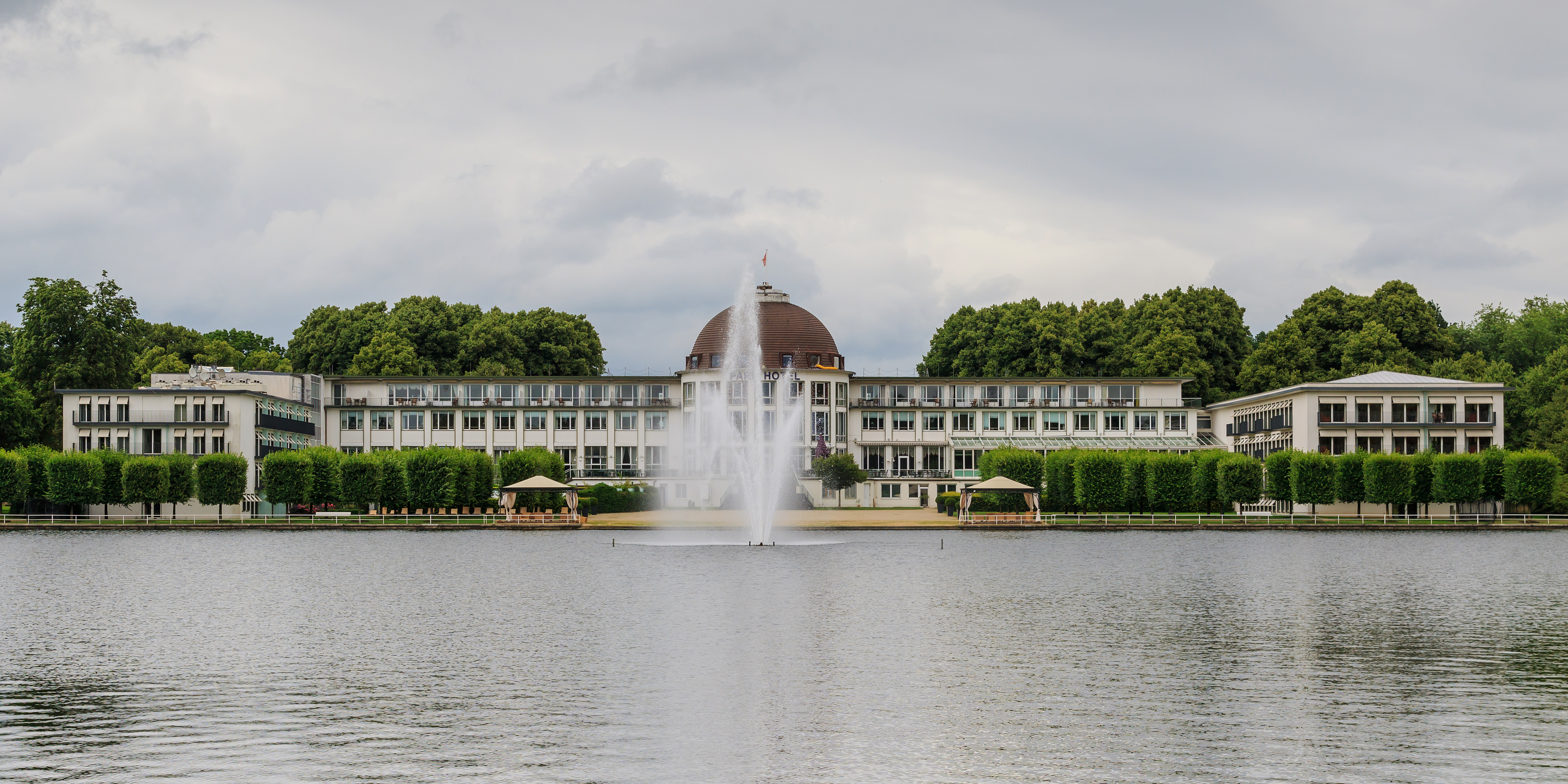 Park Hotel in Bremen, Germany